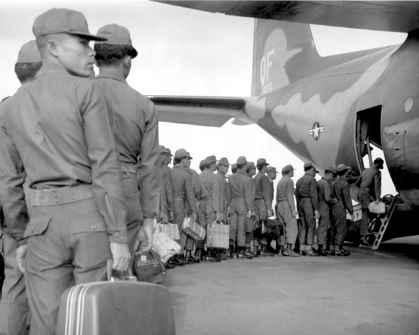 Thai Soldiers Board C-130 at Long Thanh for Trip Home.